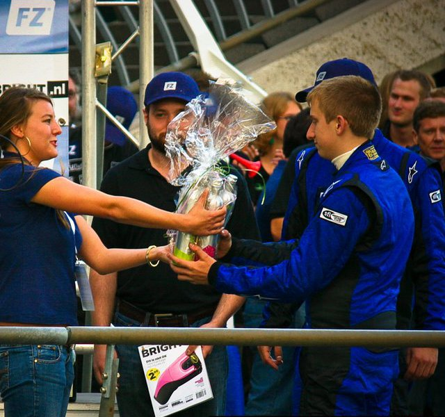 Element One team receives Best Vehicle Design Award from Bright Magazine.